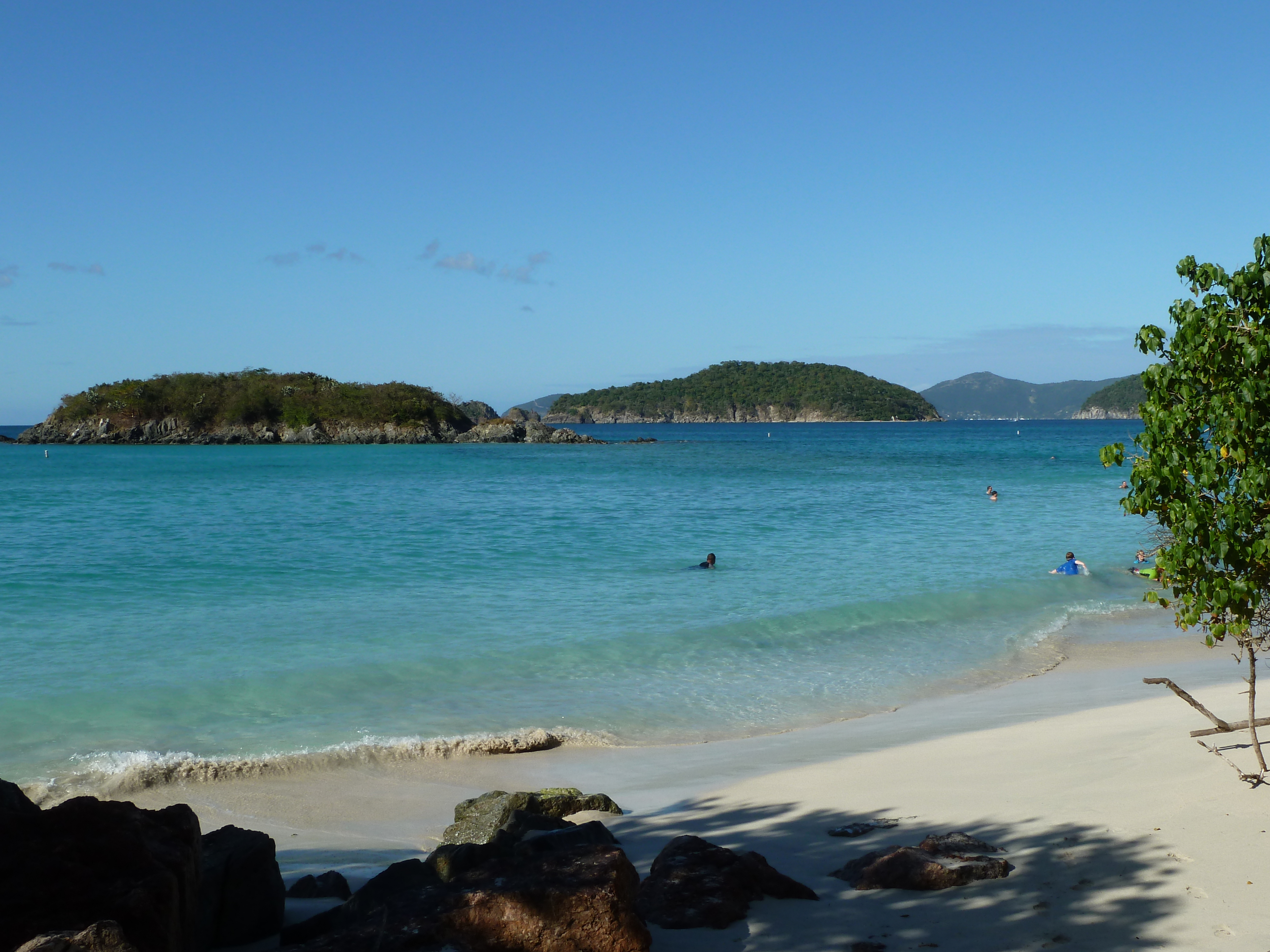 Cinnamon Cay and Whistling Cay, Cinnamon Bay, St. John, USVI, Dec 2011.